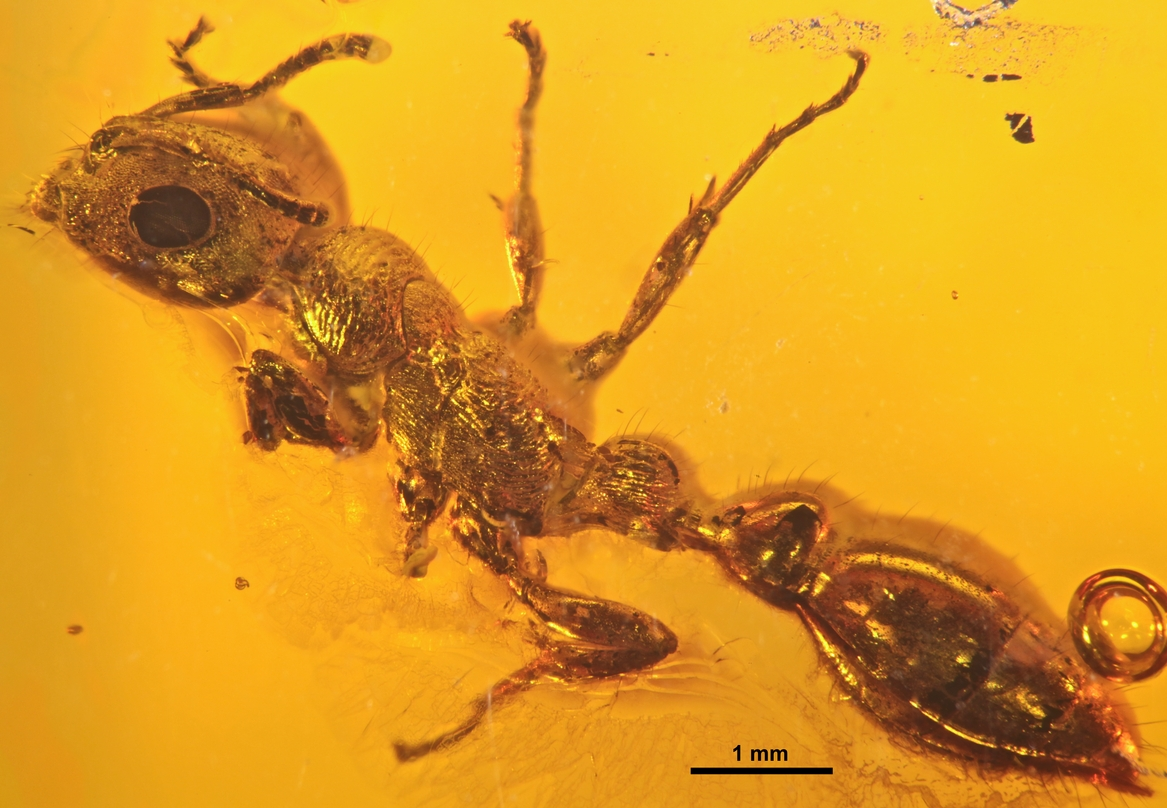 Profile view of the Tetraponera klebsi holotype worker. (Synonym =Sima klebsi) Priabonian, Eocene; Baltic amber, Kaliningrad, Russian Federation Geowissenschaftliches Museum der Universität Göttingen, University of Göttingen, Göttingen, Germany; specimen GZG-BST04671